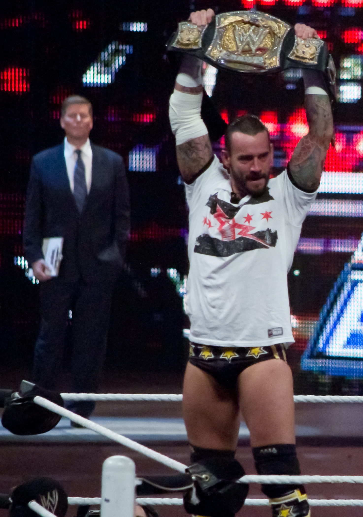 (in the foreground) CM Punk as reigning WWE Champion. John Laurinaitis, the Raw Interim General Manager and Executive Vice President of Talent Relations for WWE, watches from the stage area. Taken December 6, 2011 during the WWE Raw telecast in Tampa, Florida.